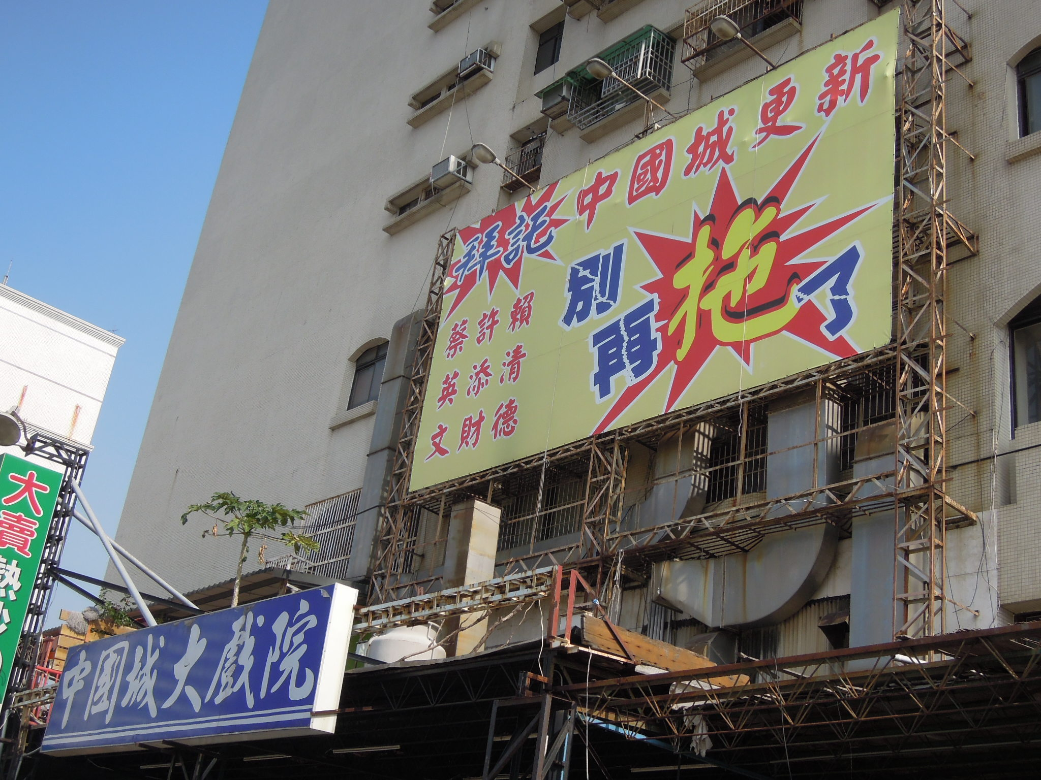 The holders of CHINA TOWN building in Tainan, Taiwan hope renew their building as soon as possible